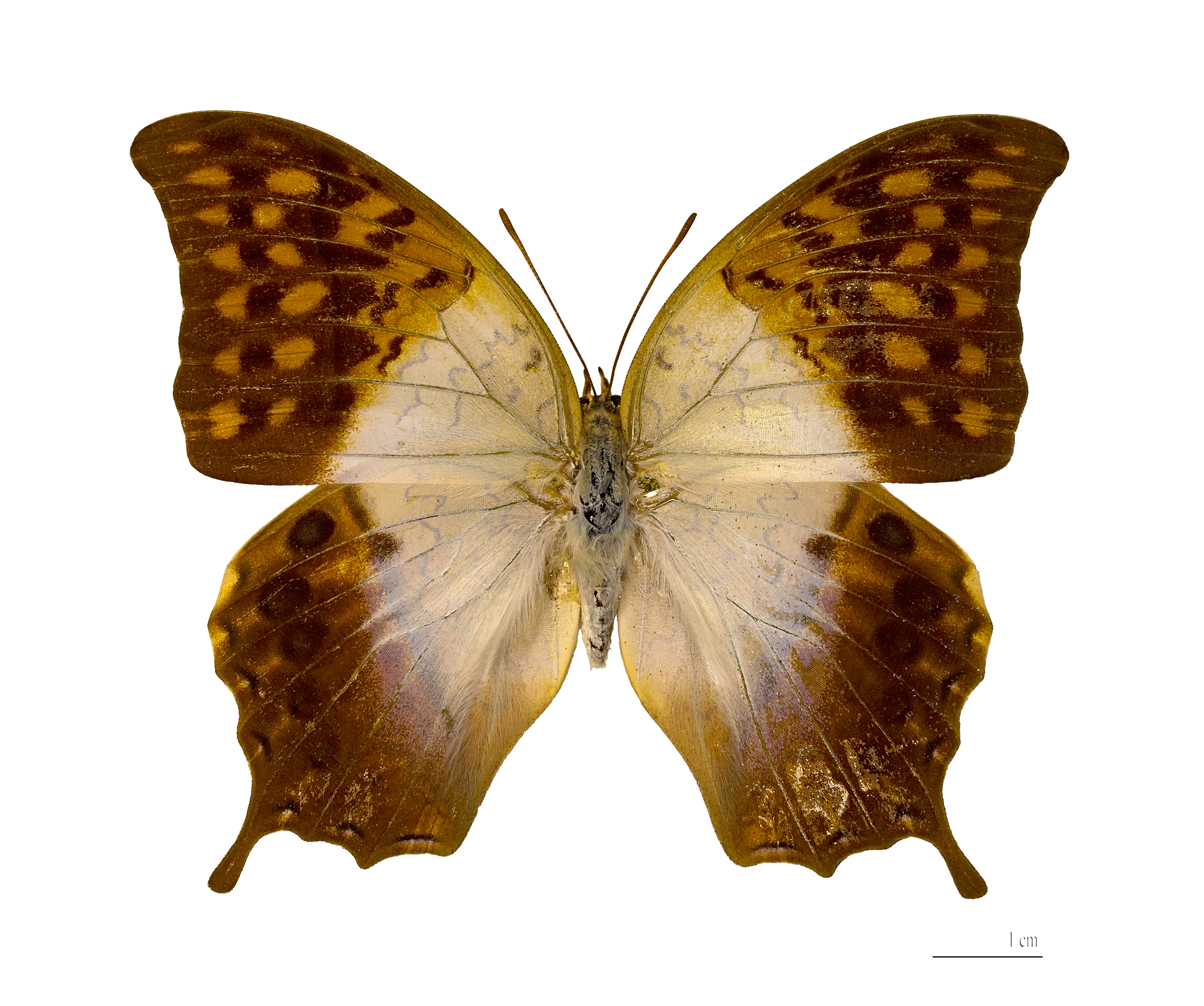 Male specimen – Dorsal side Locality: Malawi